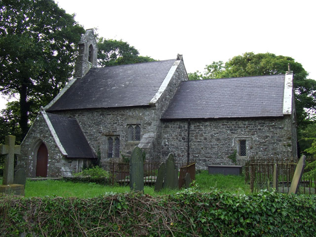 St Tyfrydog Church in Llandyfrydog. This church, dedicated to St. Tyfrydog, is an ancient structure, standing on the same spot as one founded in the 5th century. Llandyfrydog is a parish in Twrcelyn, 1 mile N.E. of Llanerchymedd, its post town, and 5 from Amlwch